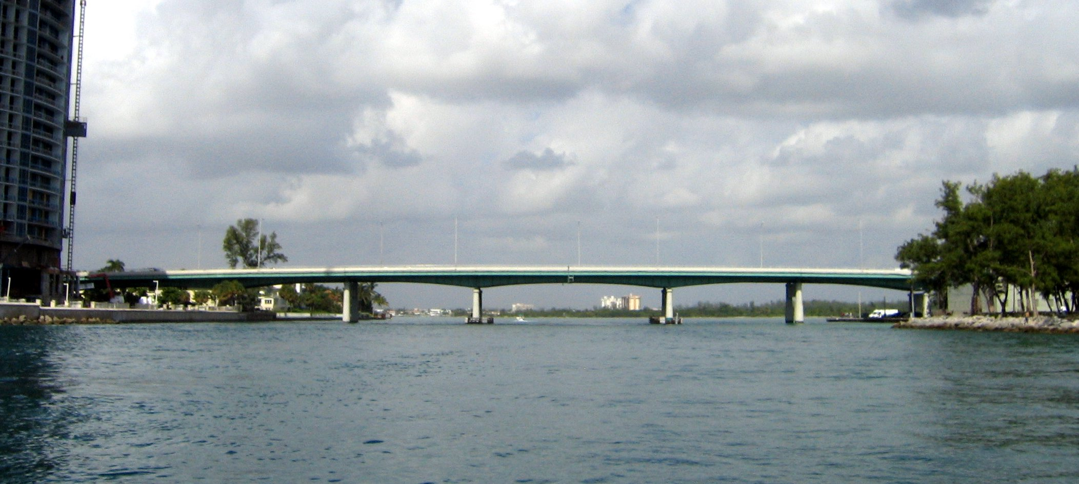 An image of the Baker's Haulover Inlet taken from the Atlantic Ocean side. If this image is unsatisfactory, I took several others including some (relatively) closeup shots of the green sign proclaiming "Baker's Haulover"; just message me and I'll upload them. Added as per request of WikiProject Florida image request page. --User:Douglas WhitakerDouglas Whitaker 03:23, 18 August 2006 (UTC) Category:Images of Florida Summary An image of the Baker's Haulover Inlet taken from the Atlantic Ocean side. If this image is unsatisfactory, I took several others including some (relatively) closeup shots of the green sign proclaiming "Baker's Haulover"; just message me and I'll upload them. Added as per request of WikiProject Florida image request page. --Douglas Whitaker 03:23, 18 August 2006 (UTC)